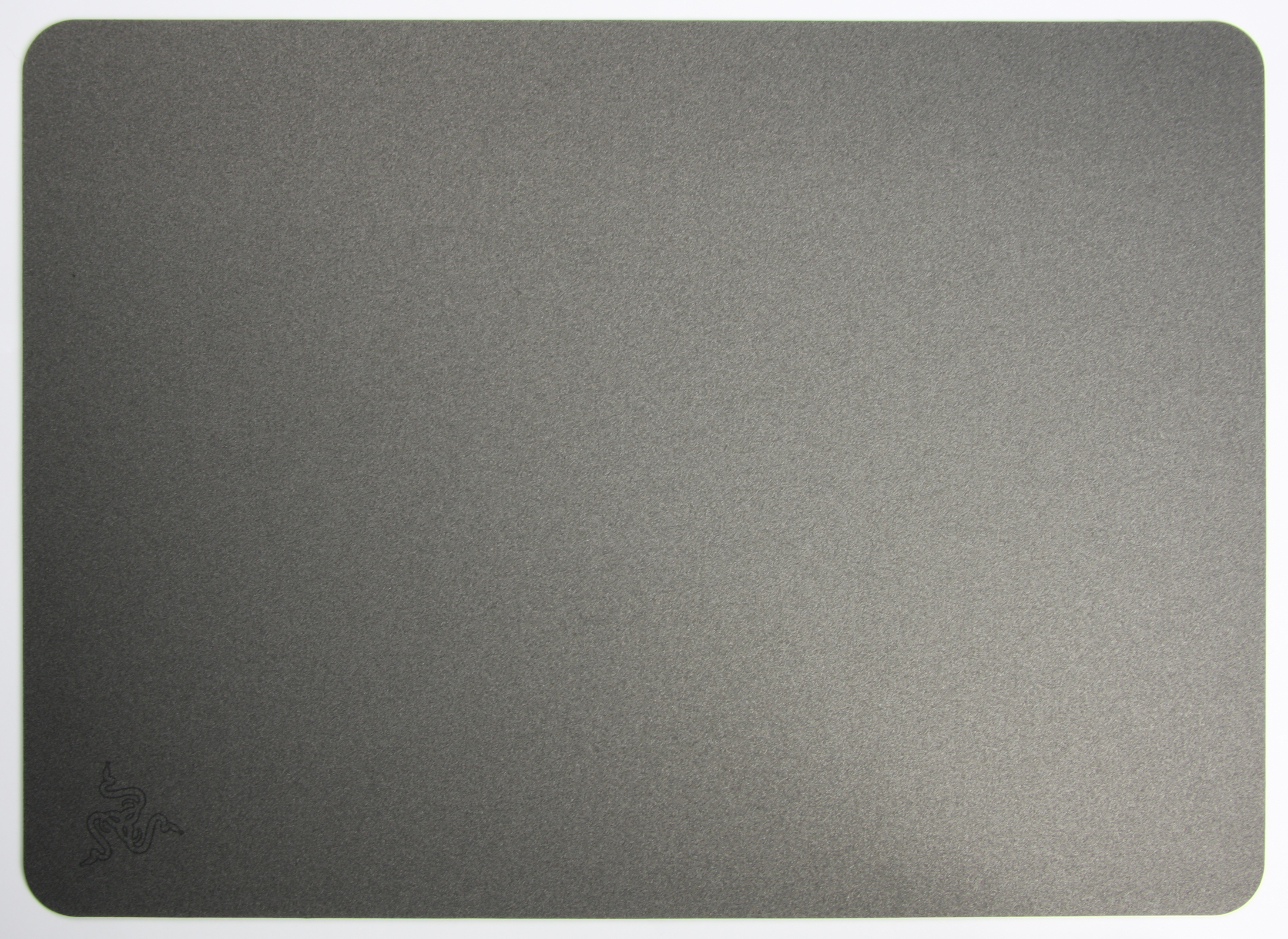 A Destructor 2 mouse pad by Razer.